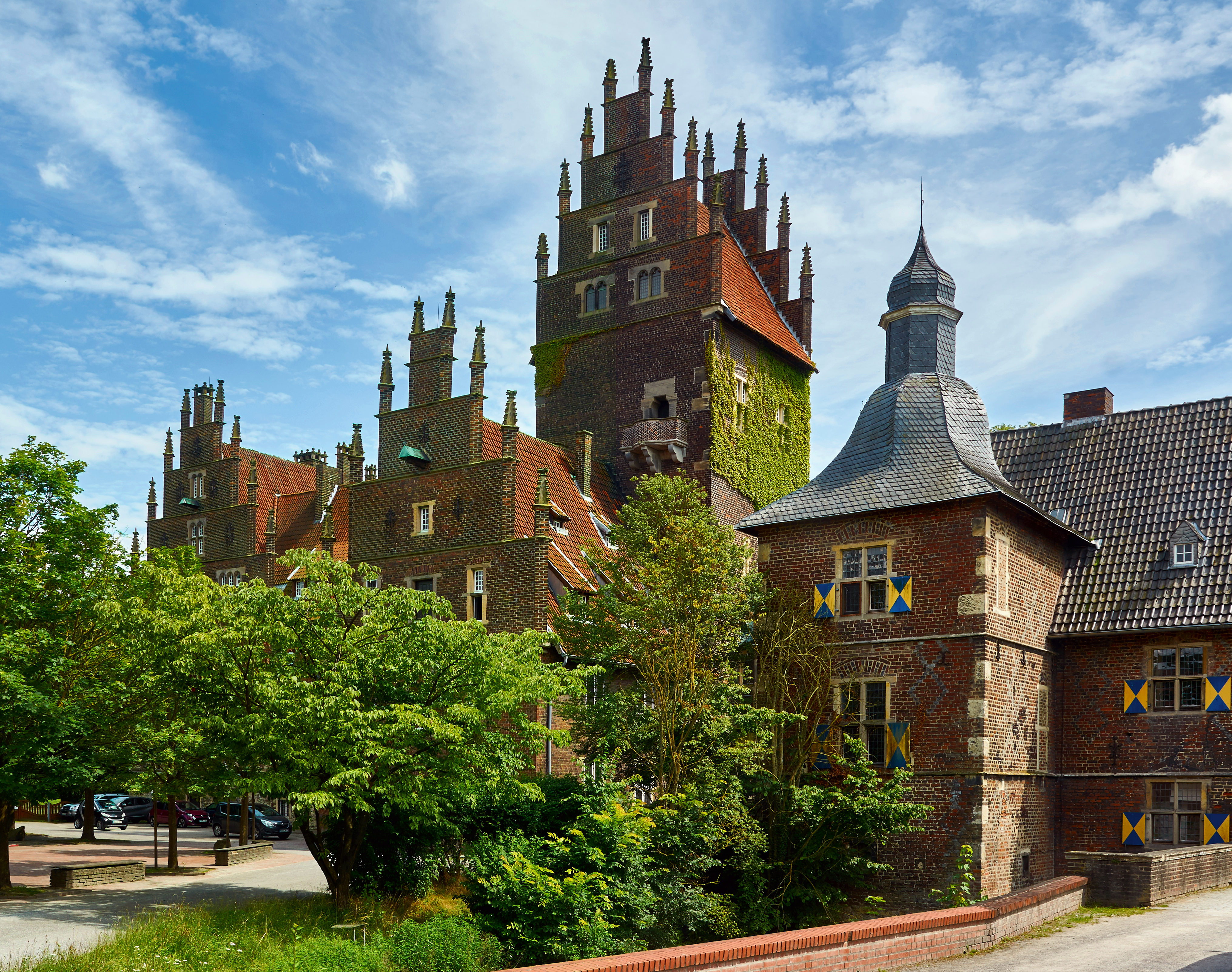 Schloss Heessen is a water castle in Hamm, North Rhine-Westphalia, Germany. This is a photograph of an architectural monument.